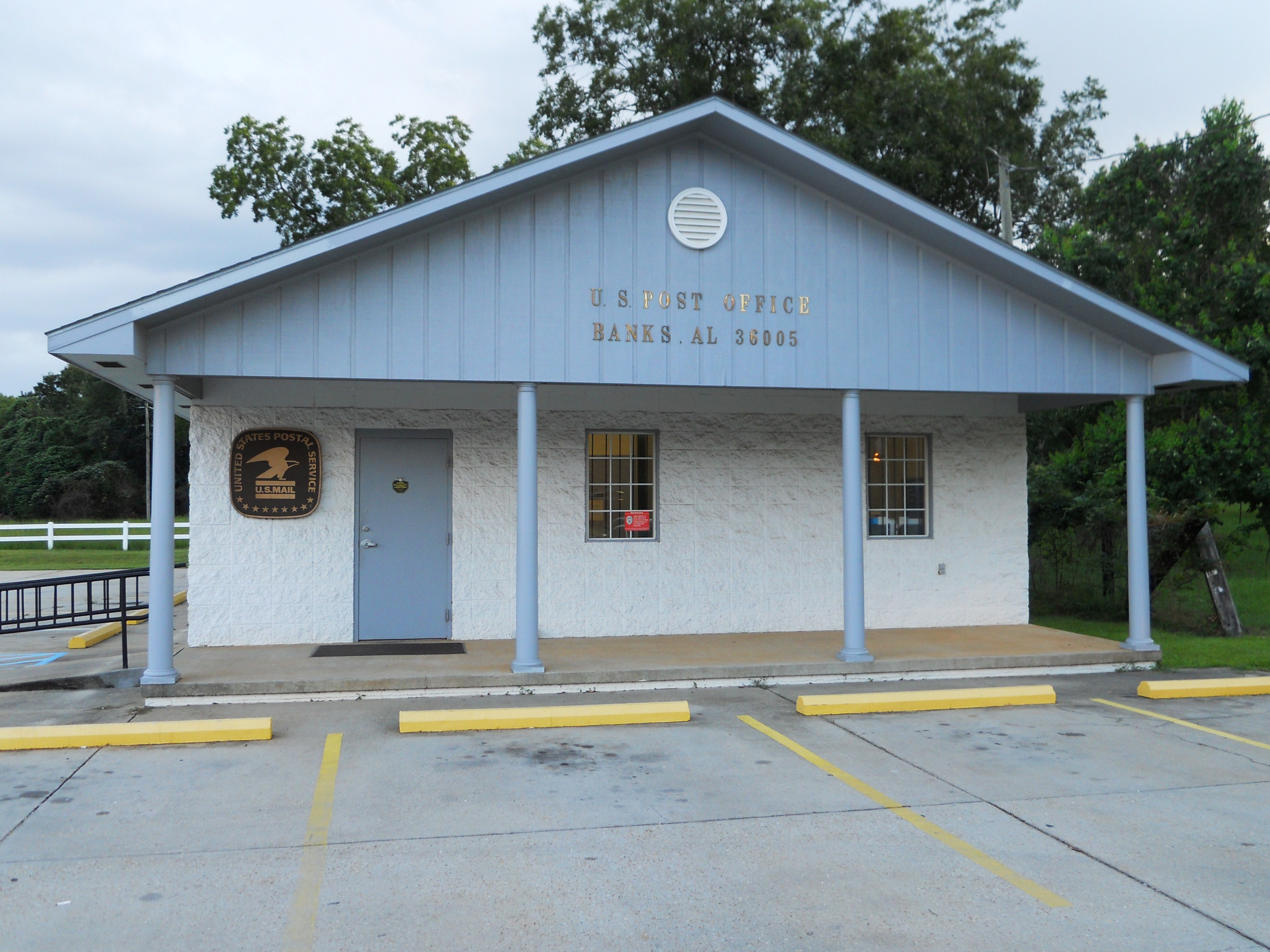 This is a photograph of the post office in Banks, Alabama.